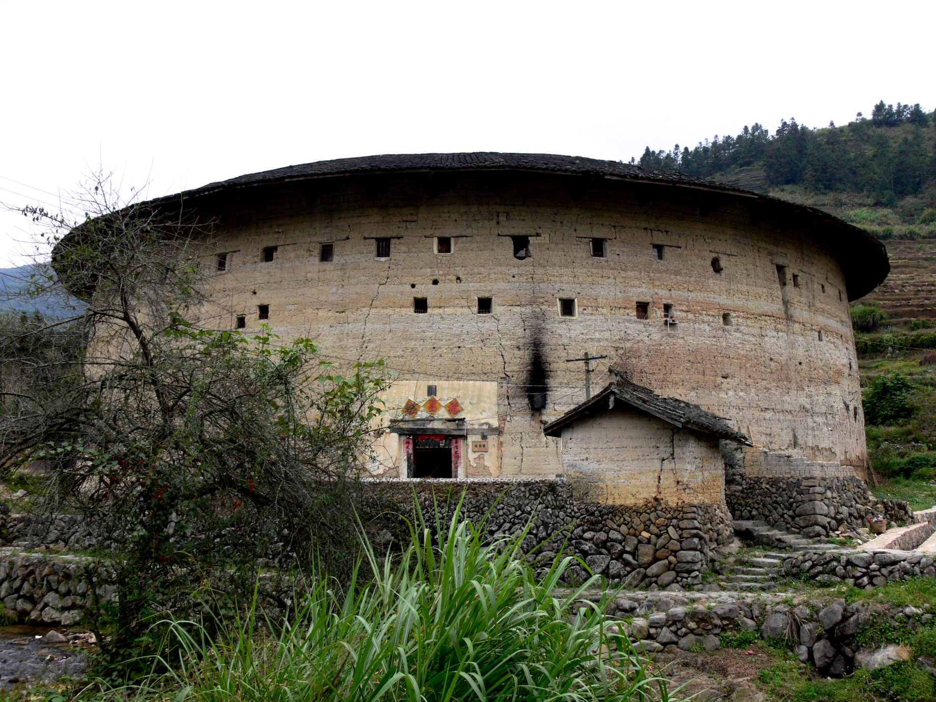 Yuchanglou, a 700 years old rotunda tulou in Yongding county福建永定县告头镇裕昌楼